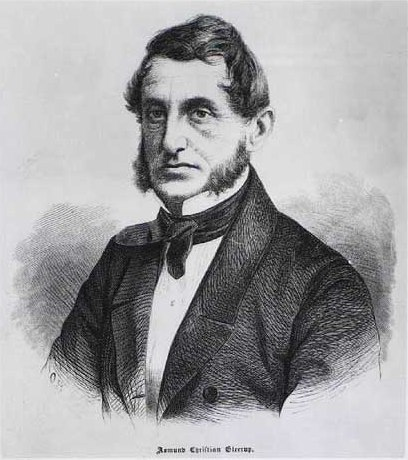 Asmund Christian Gleerup (1809-1865), Danish teacher and politician, MP